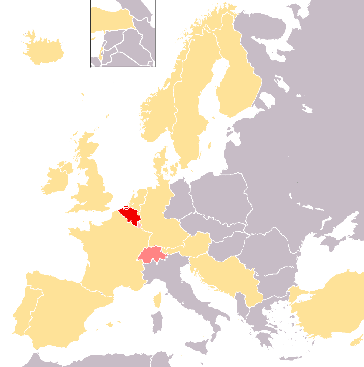 Map of Eurovision 1986